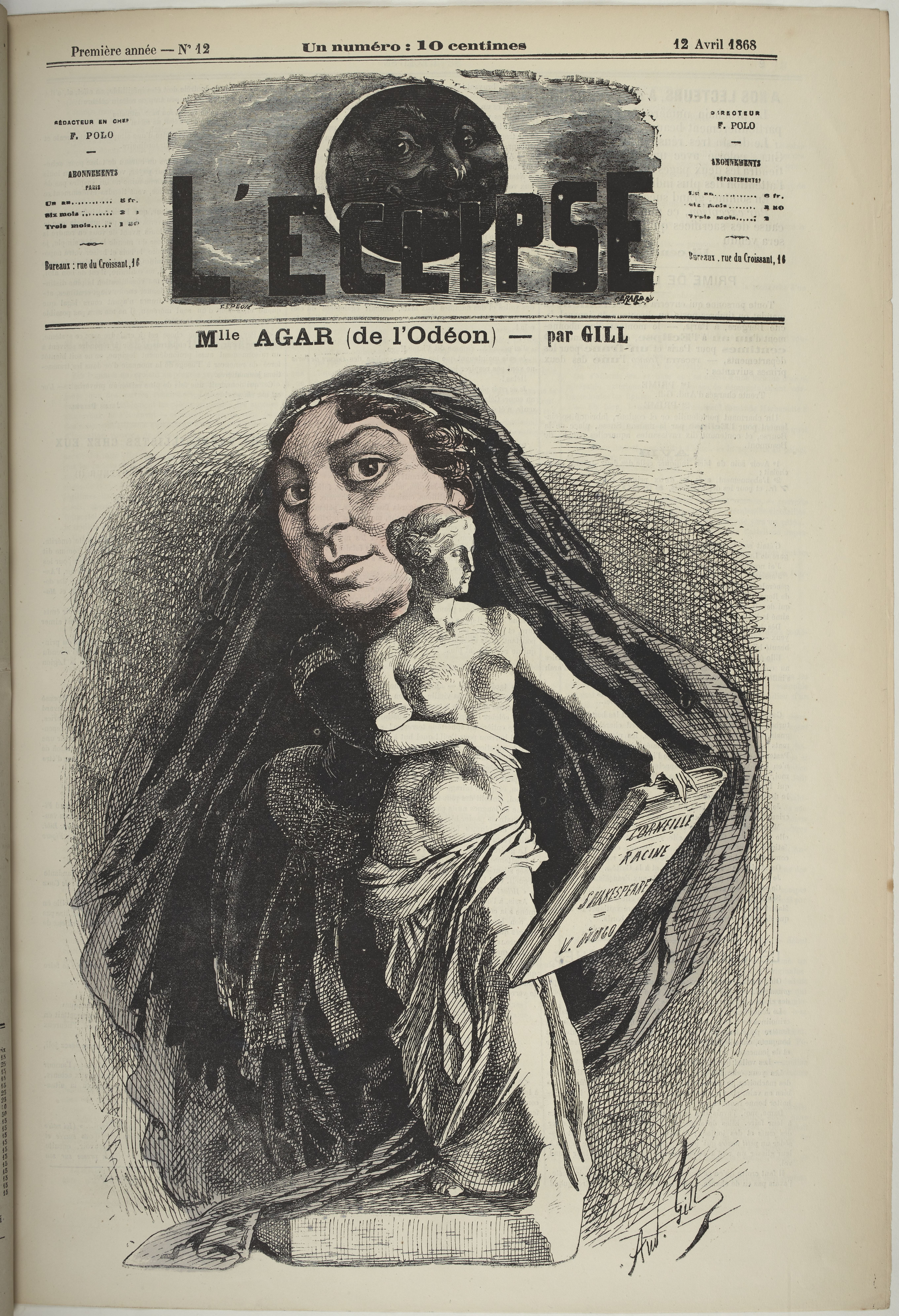 Portrait of Mlle Agar by André Gill in L'Eclipse